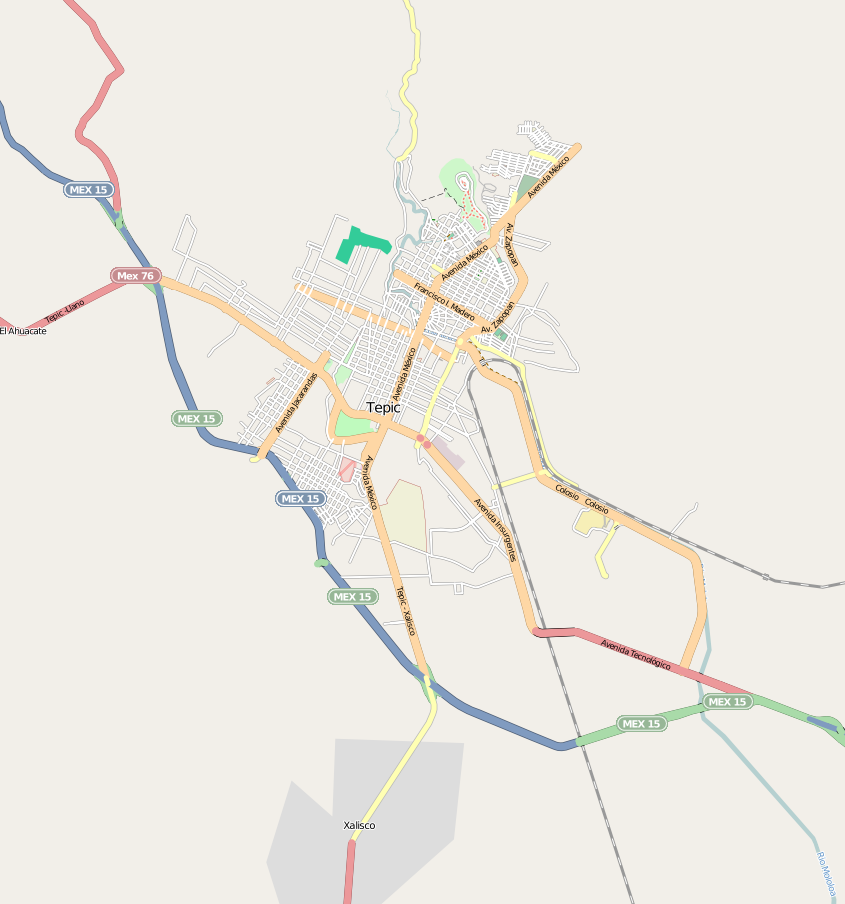 This map may be incomplete, and may contain errors. Don't rely solely on it for navigation.